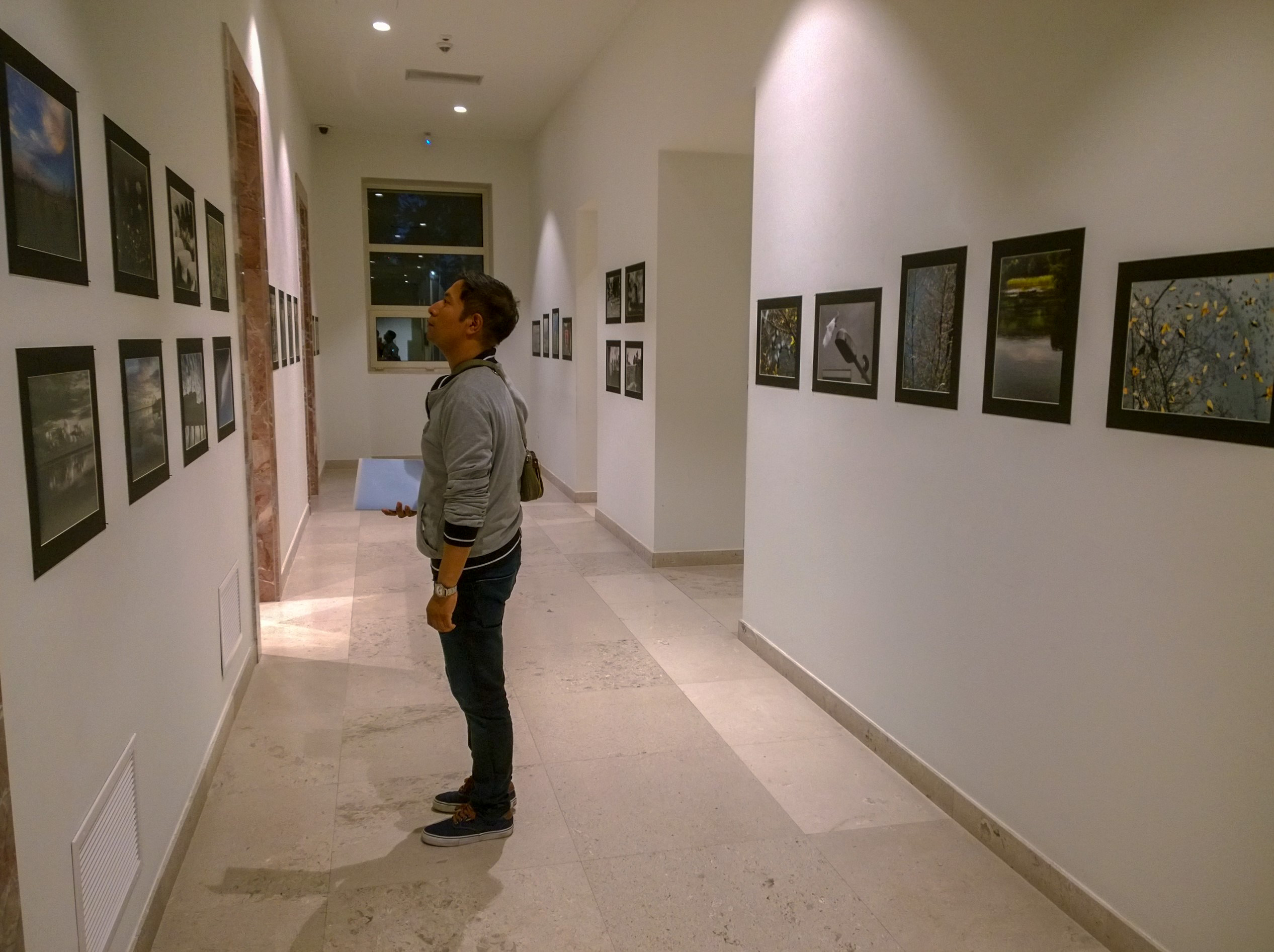 Invested in new art